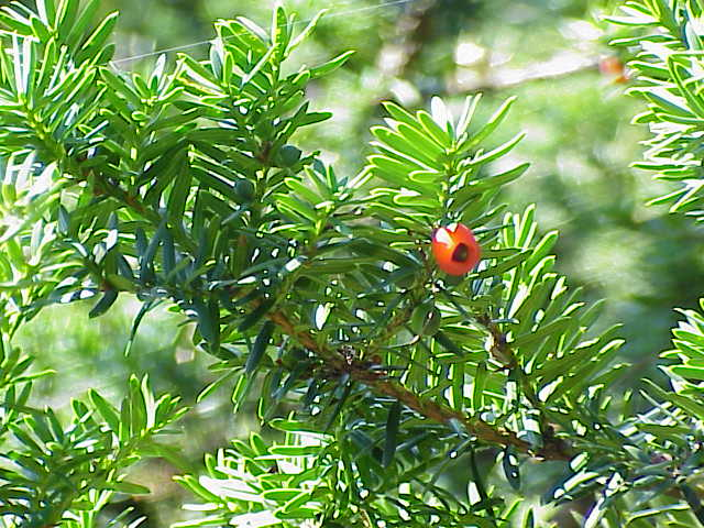 Species: Taxus cuspidata Family: Taxaceae Image No. 3